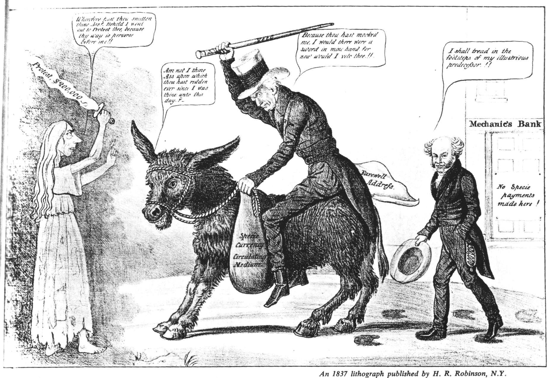 Title: The modern balaam and his ass. A gaunt figure labeled Bankrupts of 1837 "the Regency" "Safety Fund" "Deposit Banks" "Old Hickory" & Uncle Sam $300,000,000 holds a fiery sword labeled Protest $200,000. The figure says "Wherefore hast thou smitten thine Ass? Behold I went out to Protest thee, because thy way is perverse before me!!" An ass carrying a man and a sack with the words Specie Currency Circulating Medium replies to the figure, "Am not I thine Ass upon which thou hast ridden ever since I was thine unto this day?" The man ontop the talking Ass wields a cane with the word Veto on it and says to the figure, "Because thou hast mocked me, I would there were a sword in mine hand, for now would I veto thee!!" The man also has part of his garment labeled Farewell Address. A man walking behind him with a bulge in his pocket labeled $300,000 says, "I shall tread in the footsteps of my illustrious predecessor."